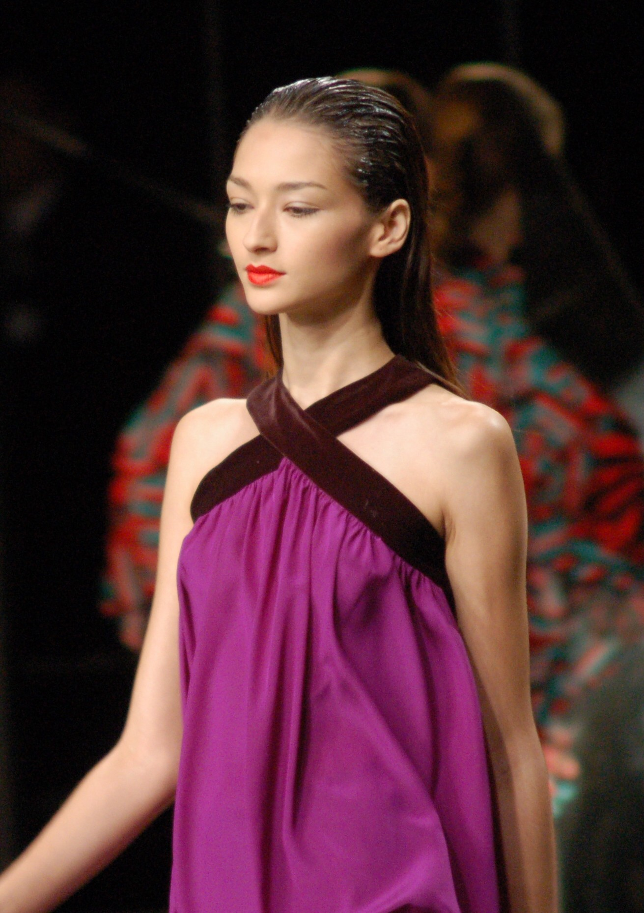 Bruna Tenorio at Sao Paulo Winter 2007 Fashion Week